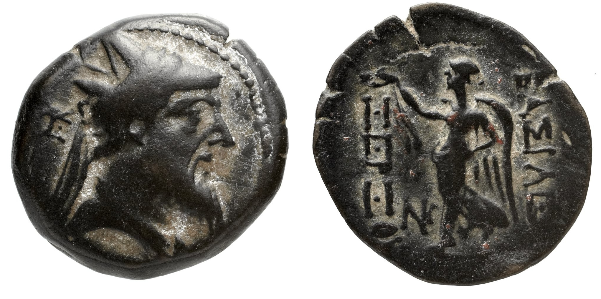 Coinage of Arsames King of Sophene